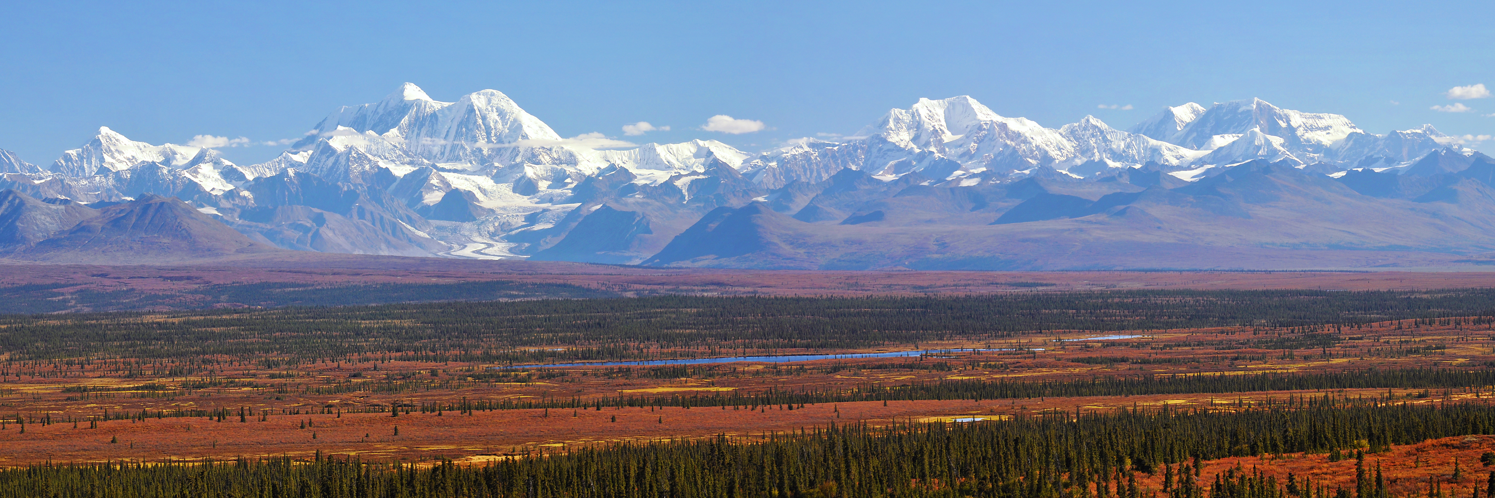 Mt. Hayes (13,832 ft.) and other high peaks in the eastern Alaska Range, as seen from the Denali Highway.